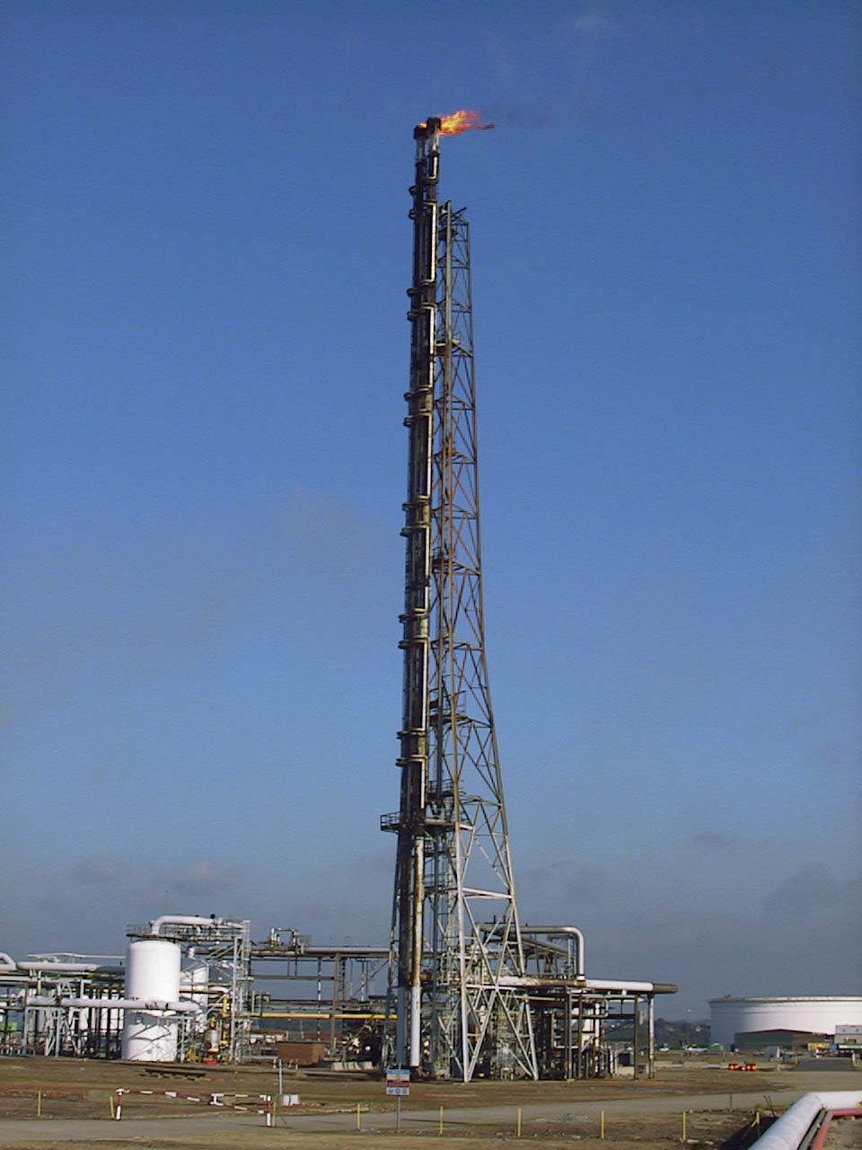 shell haven flare system